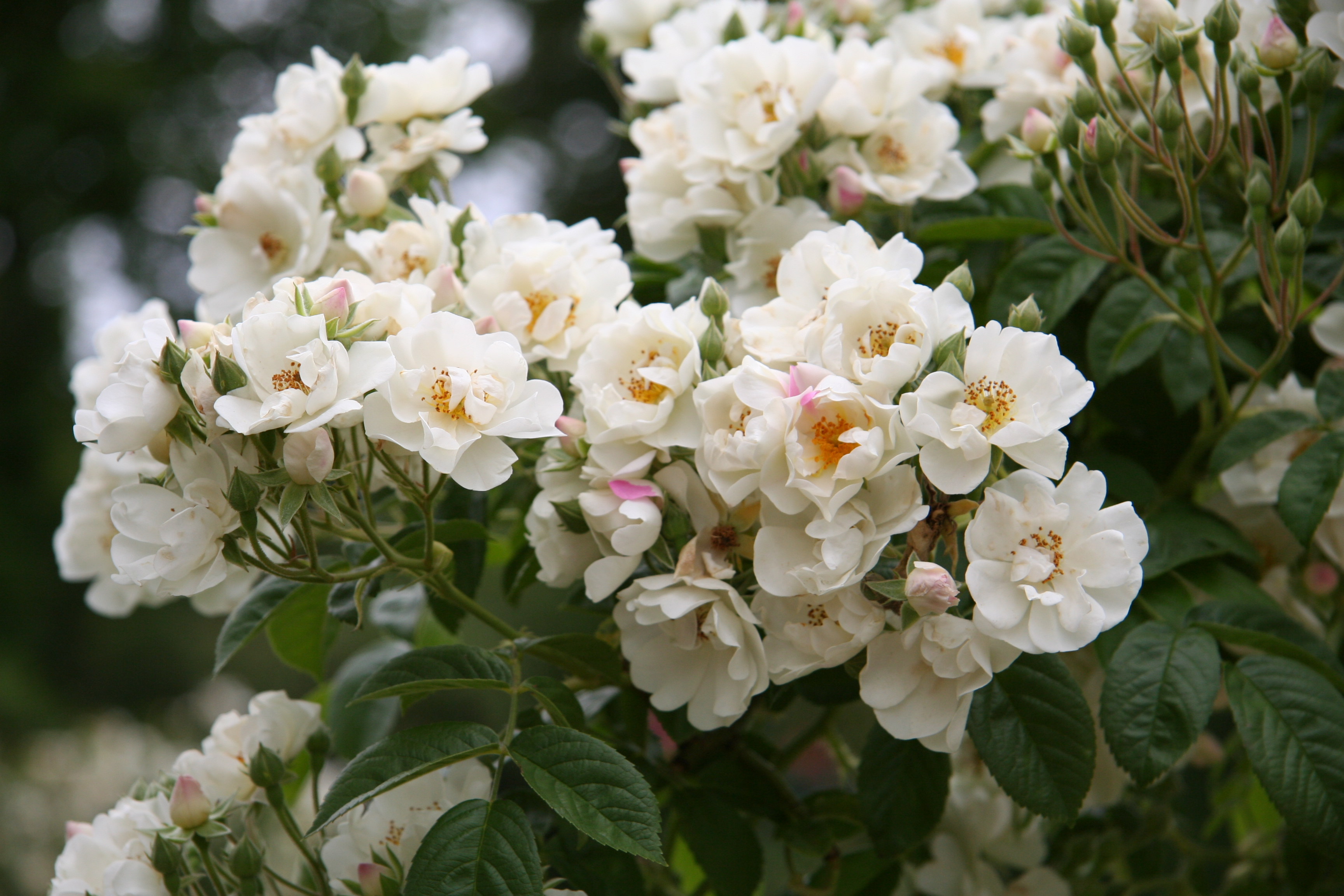 Thalia rose - Bagatelle Rose Garden (Paris, France).